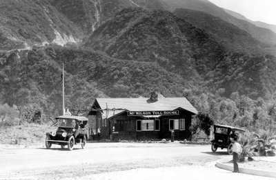 Tollhouse on the Mount Wilson Toll Road in 1923 - old road to Mount Wilson in the San Gabriel Mountains of Southern California. Present day hiking trail in the Angeles National Forest, above Altadena, in Los Angeles County.